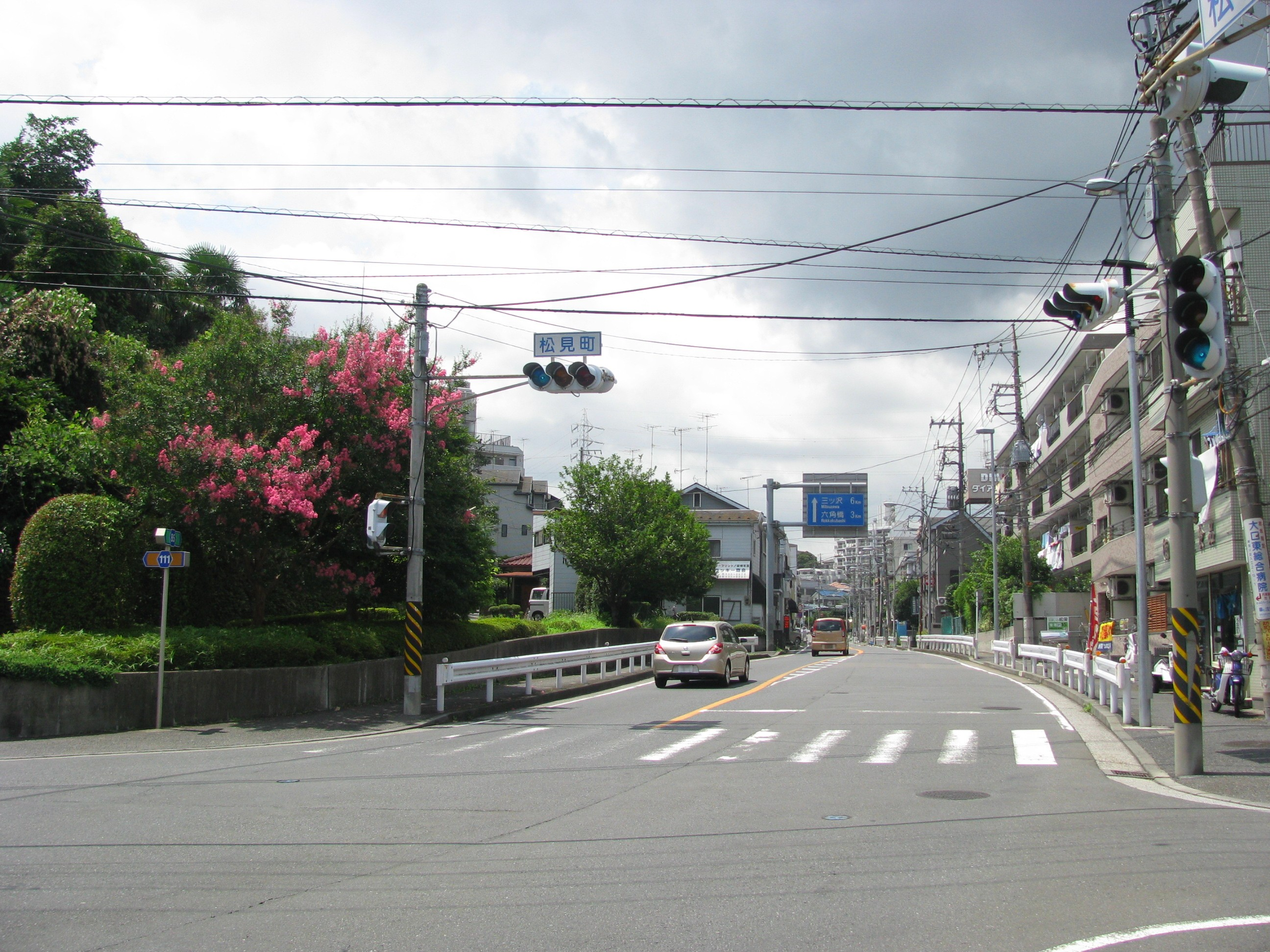 The Yokohama city road Route 85. This location is Matsumichō in Kanagawa-ku, Yokohama, Kanagawa, Japan.